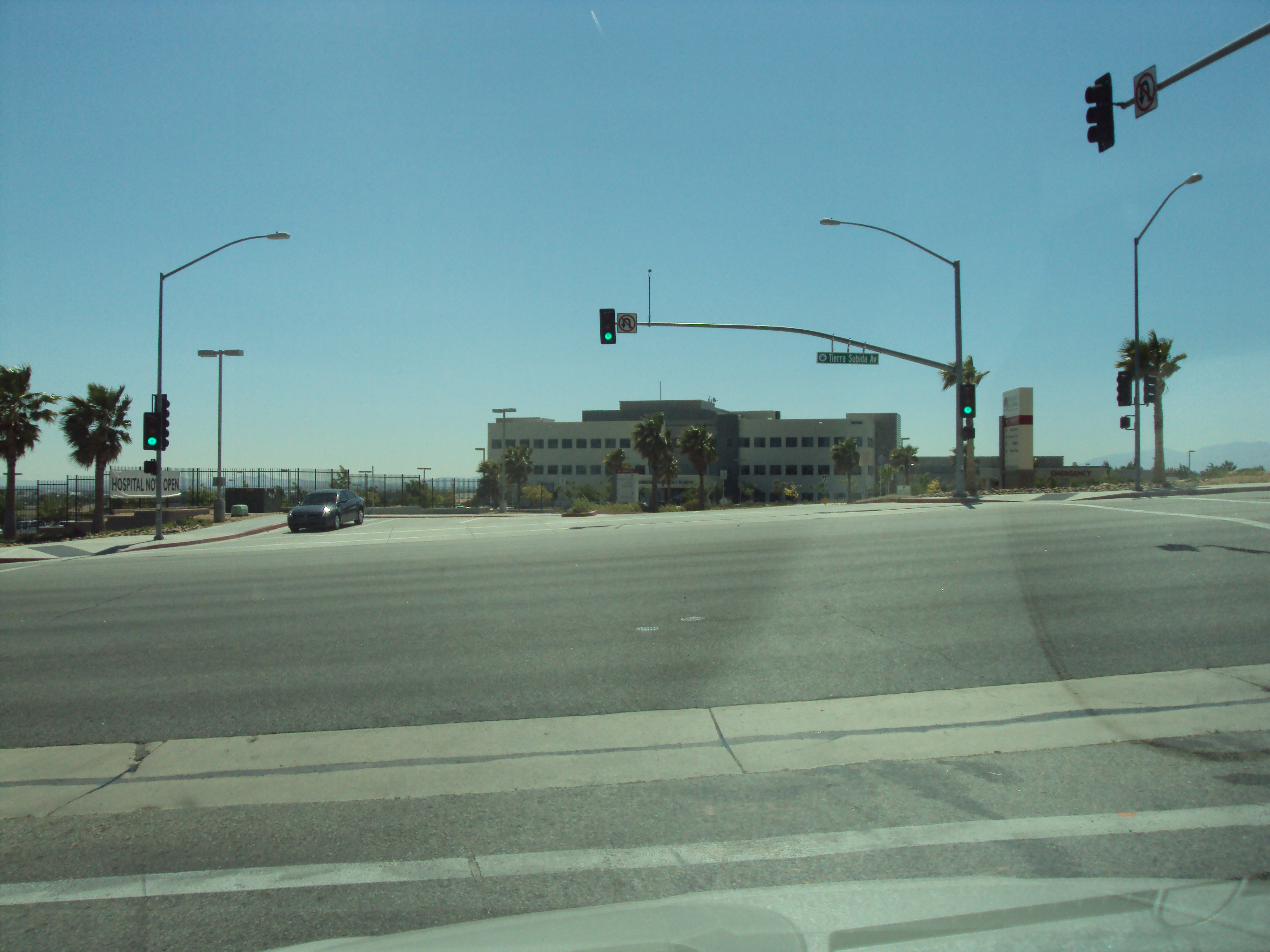 Main Entrance to the Palmdale Regional Medical Center and Palmdale Medica Plaza for use in the article about the same.